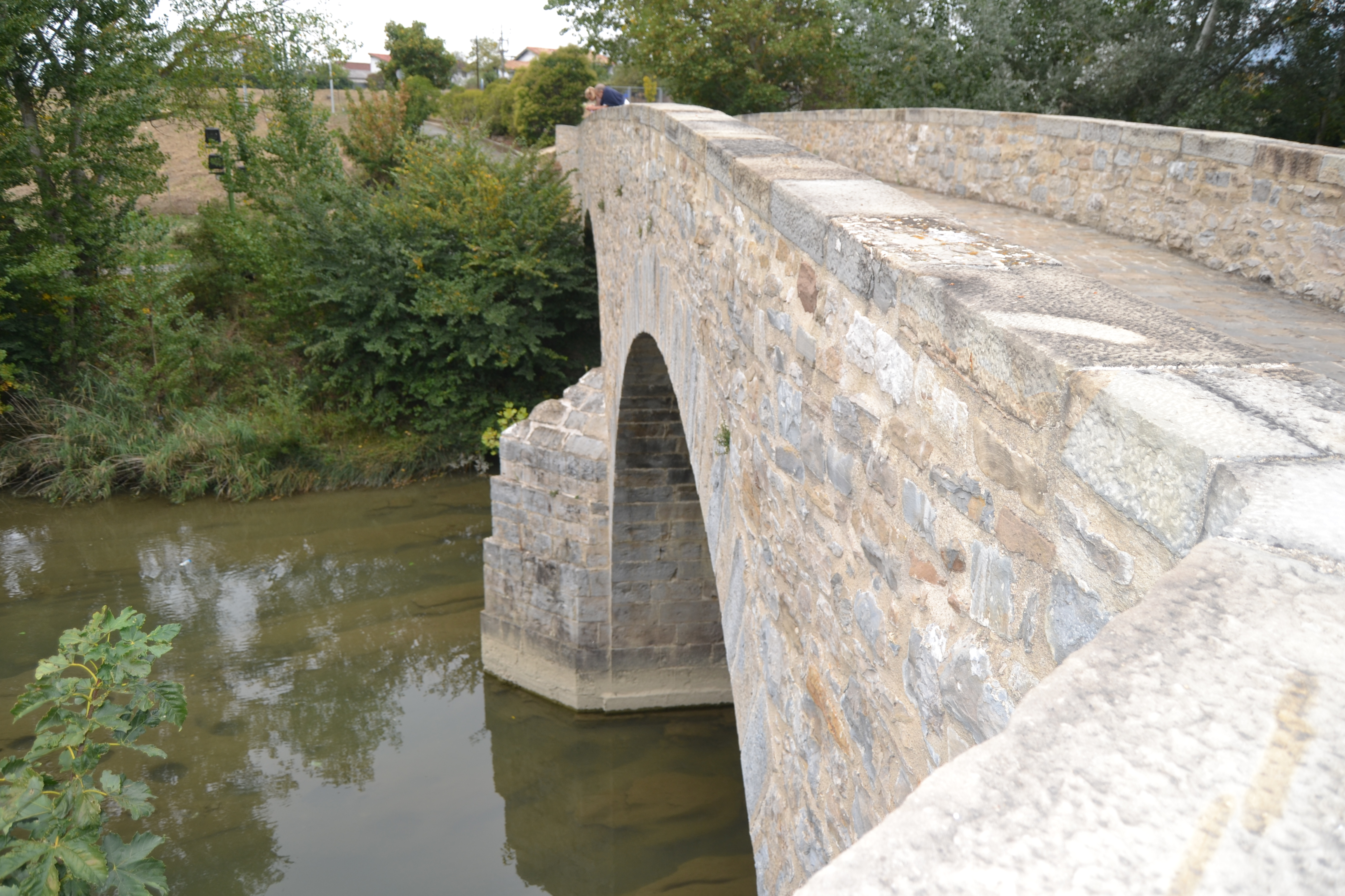 Bridge of Miluze. Iruñea-Pamplona, Navarre. Basque Country.